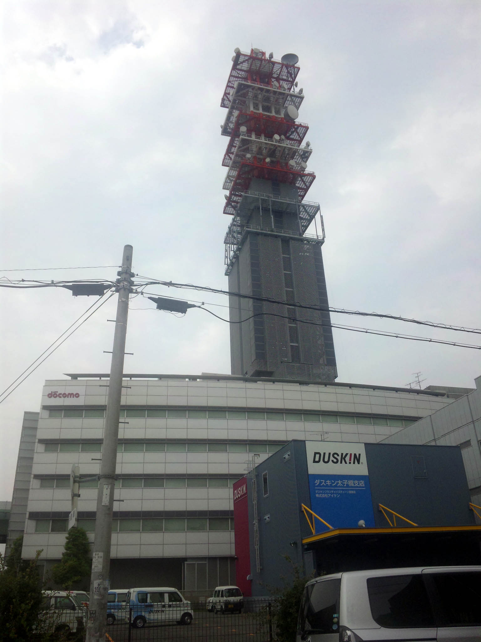 NTT DOCOMO Osaka